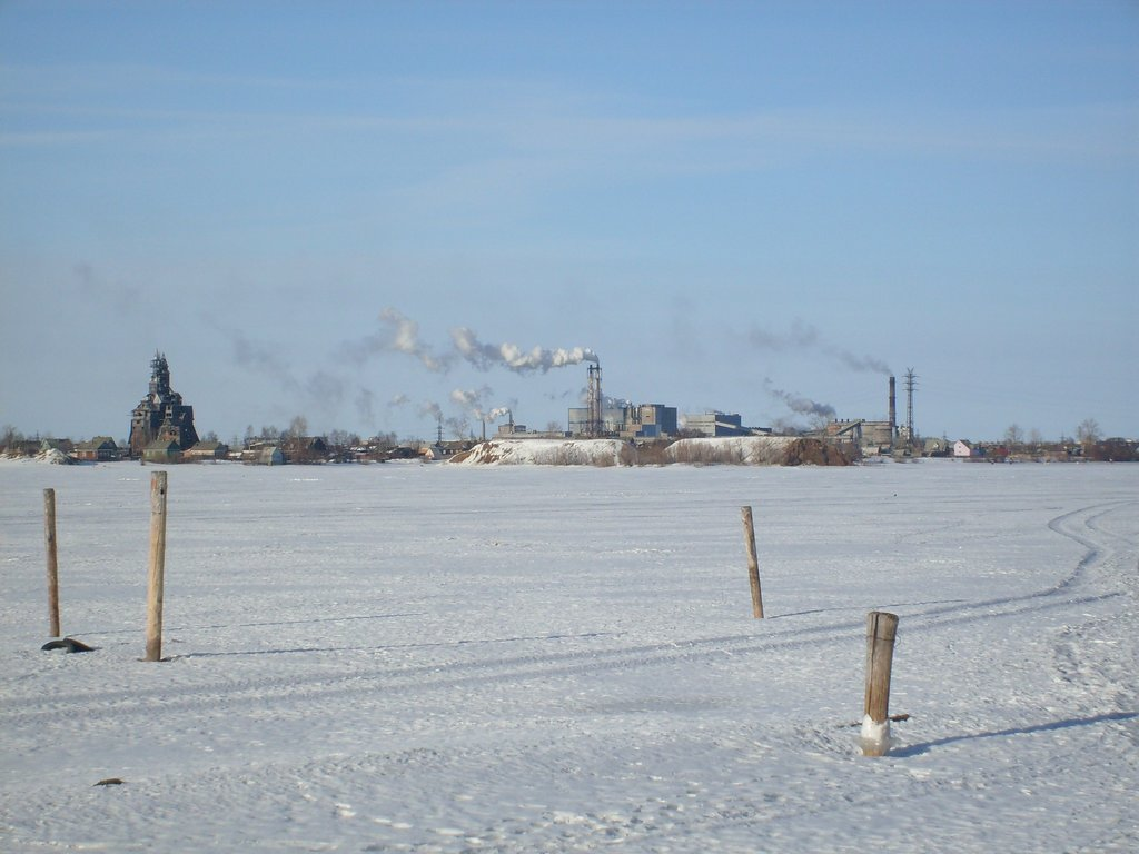 Solombala pulp and paper mill and Sutyagin House (left) - a 13-story wooden building being built by the Arkhangelsk entrepreneur Sutyagin. The world's tallest wooden building, it is to be demolished by February 2009, due to the owner-builder having failed to obtain a building permit.